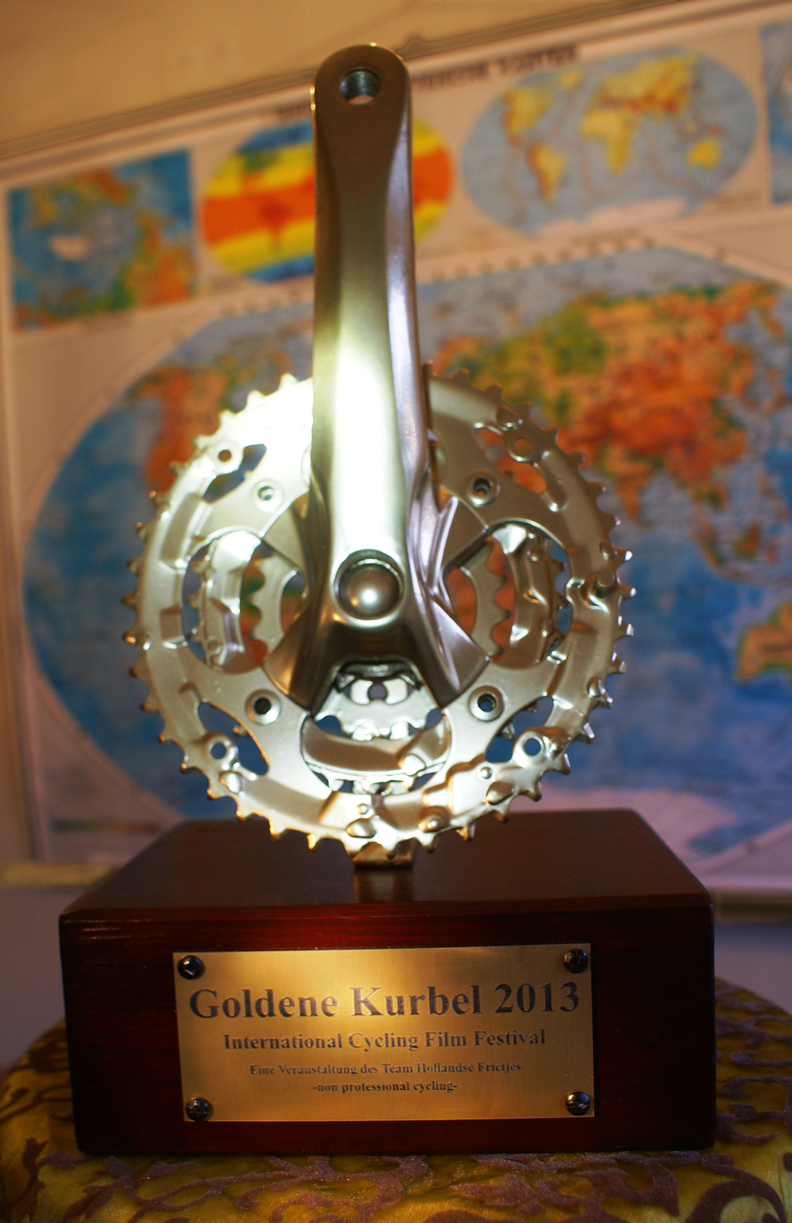 Goldene Kurbel, the award for the best film of the International Cycling Film Festival.